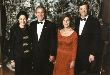 Senator Snowe and her husband, former Maine Gov. John McKernan, enjoy a holiday reception at the White House with President and Mrs. Bush.